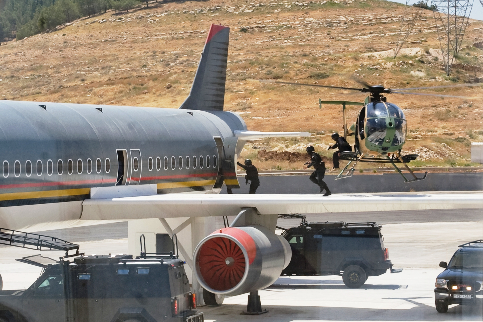 Jordanian Special operators give a demonstration of an aircraft takedown, during a visit, by Chief of Staff of the Army Gen. George W. Casey Jr., at a military facility, outside Amman, Jordan, Apr. 26, 2010.